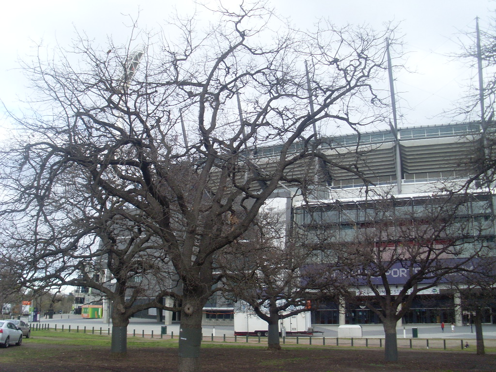 Trees in winter outside MCG